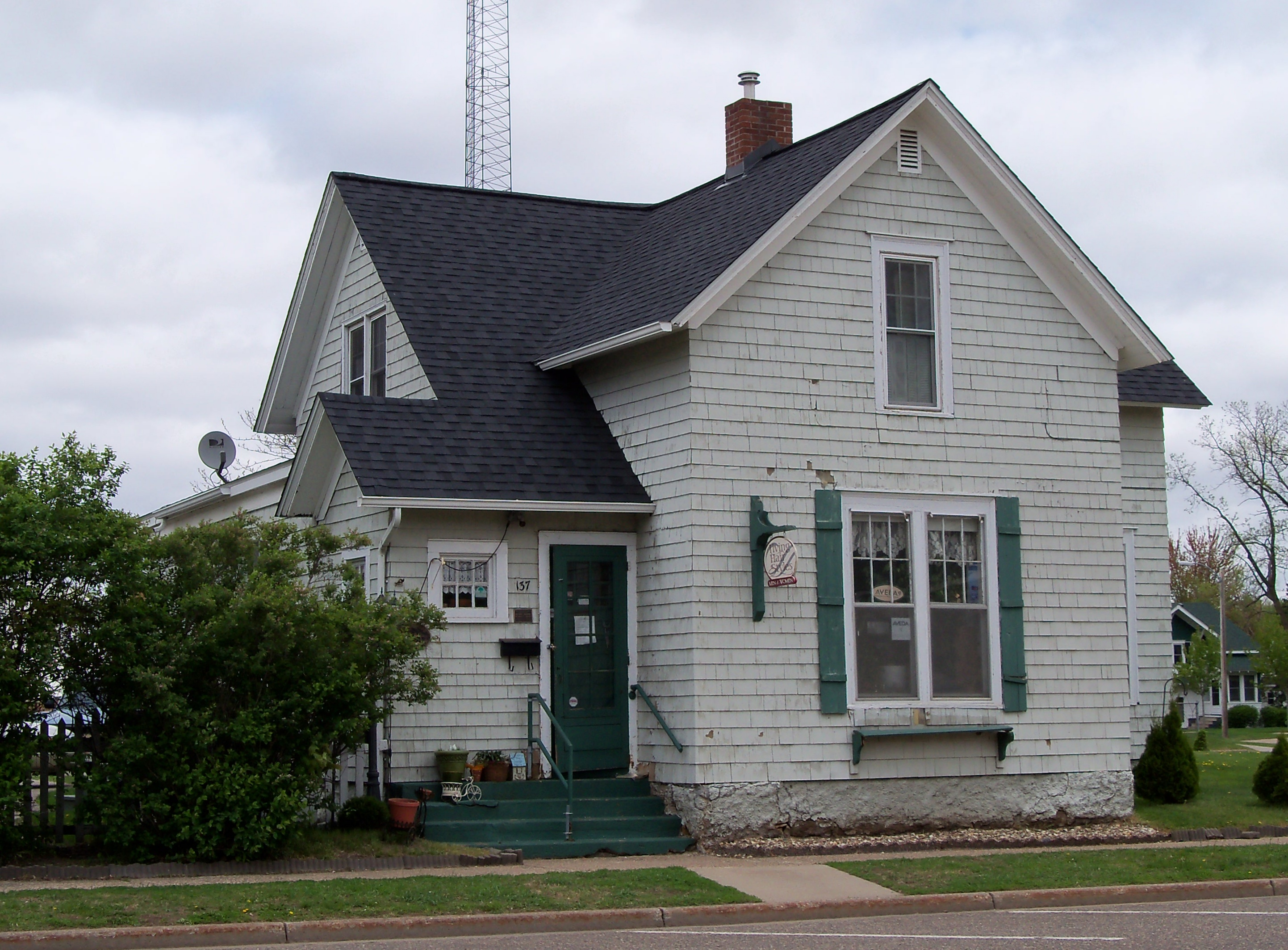 Dr. Frank W. Eppley Office in New Richmond, Wisconsin, USA.